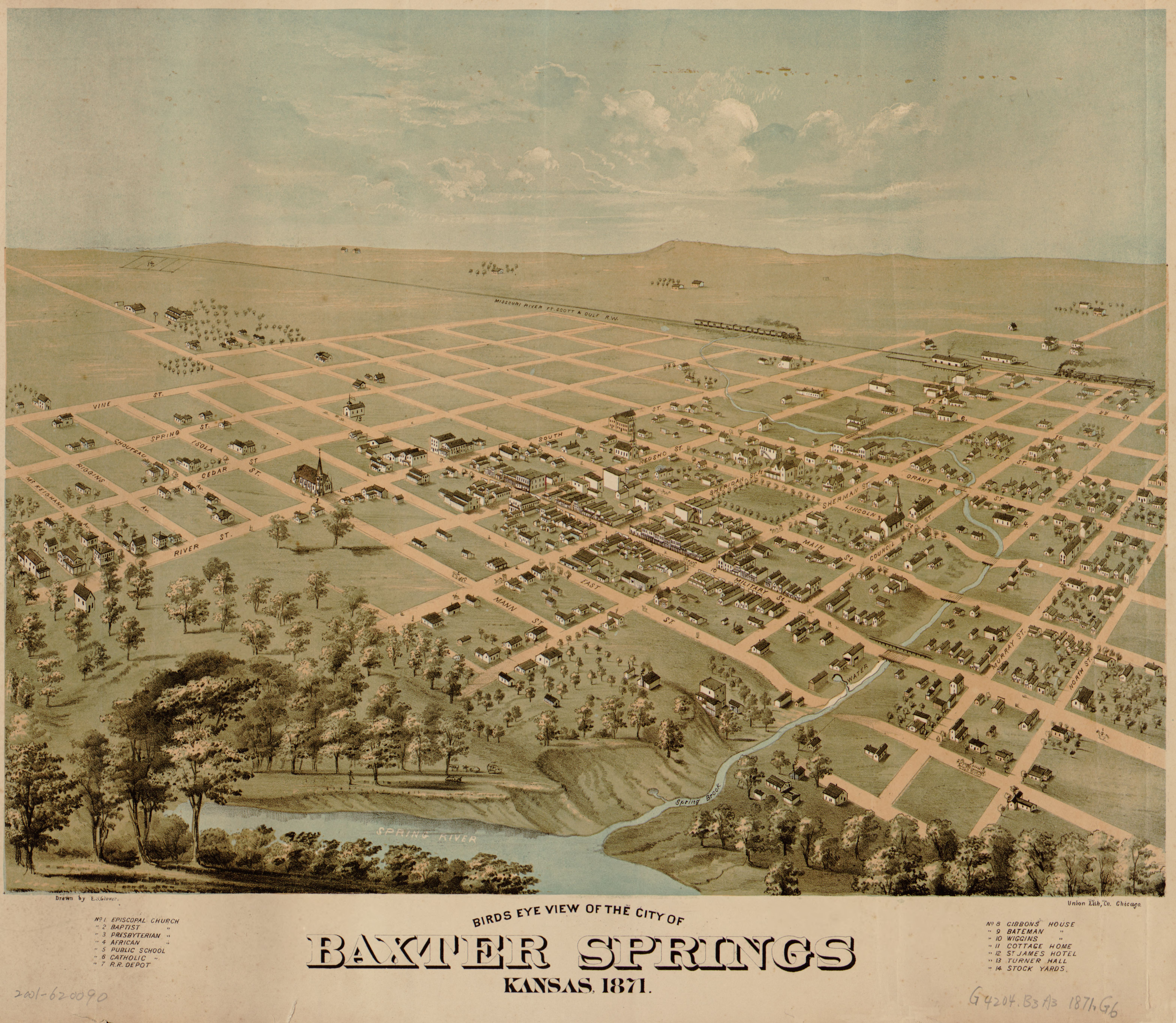 This panoramic view illustrates the cattle town of Baxter Springs, Kansas. Available also through the Library of Congress Web site as a raster image. Includes index to points of interest. Acquisitions control no. 2000-64 PM3